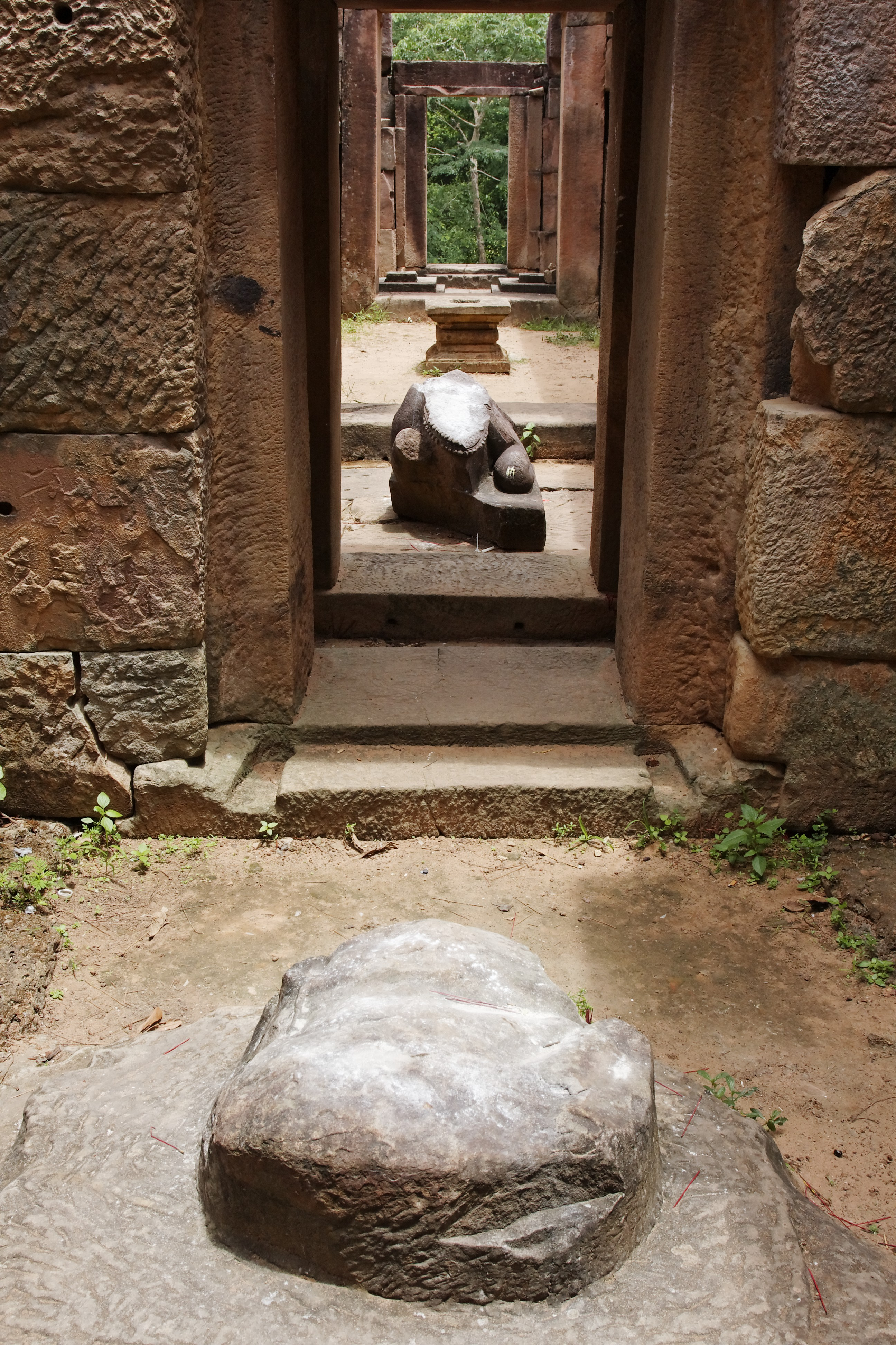 Prasat Ta Muen Thom, Thailand